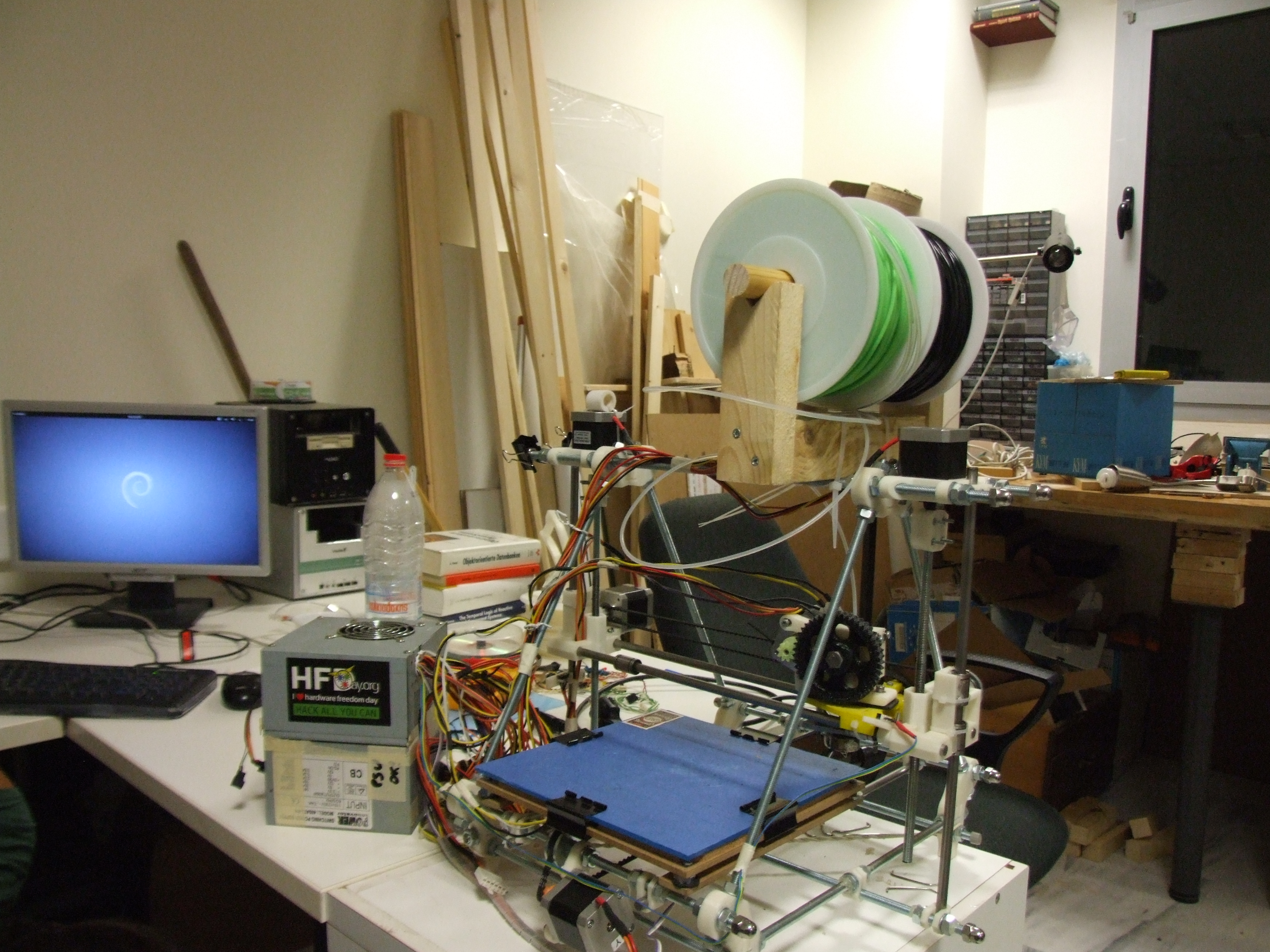 A Mendel RepRap 3D printer in a hackerspace.